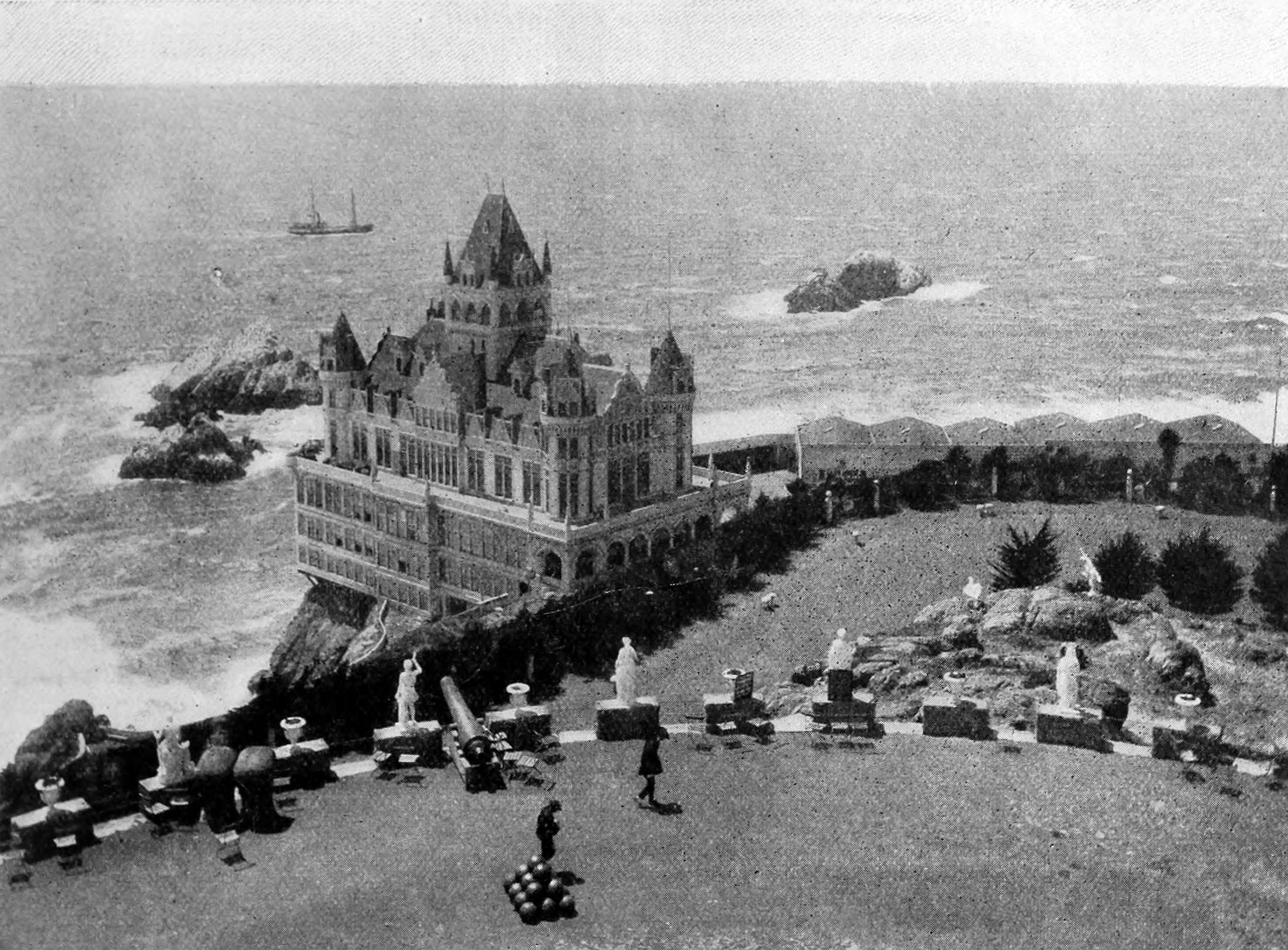 Title: Review of reviews and world's work Year: 1890 (1890s) Authors: Subjects: Publisher: New York Review of Reviews Corp Text Appearing Before Image: A VIEW OF THE GREAT CITY HALL OF SAN FRANilSCO, WHICH COLLAPSED IN THE EARTHgUAKE. IT IS SAID TO HAVE COST S7,(K)n,(IOO. CALIFORNIA S CATASTROPHE. 543 Text Appearing After Image: THE FAMOUS CLIFF HOUSE, ON SUTRO HEIGHTS, SAN FRANCISCO, WHICH WAS REPORTED TO HAVE ENTIRELY DISAPPEARED IN THE CONVULSION CAUSED BY THE EARTHQUAKE. prosperous period of all its history. Of its fourhundred thousand people, it was estimated onthe day following the earthquake tliat fully one-fourth were driven from their homes. Manythousands escaped across the bay to (J)akland,Berkeley, and the adjoining districts. Otherthousands were sheltered in tents in the greatGolden Gate Park, by virtue of prompt actionon the part of the military forces of the UnitedStates stationed at the Presidio, under the com-mand of General Funston. San Francisco will not have lost courage, andthe city will rise from its ashes better appointedand finer than ever. Chicago, Boston, andBaltimore have shown how speedily and withwhat vmdaunted energy American cities restorethemselves after great fires. But although SanFrancisco will not remain in ruins, there mustbe great mourning and widespread sympathyfor an app